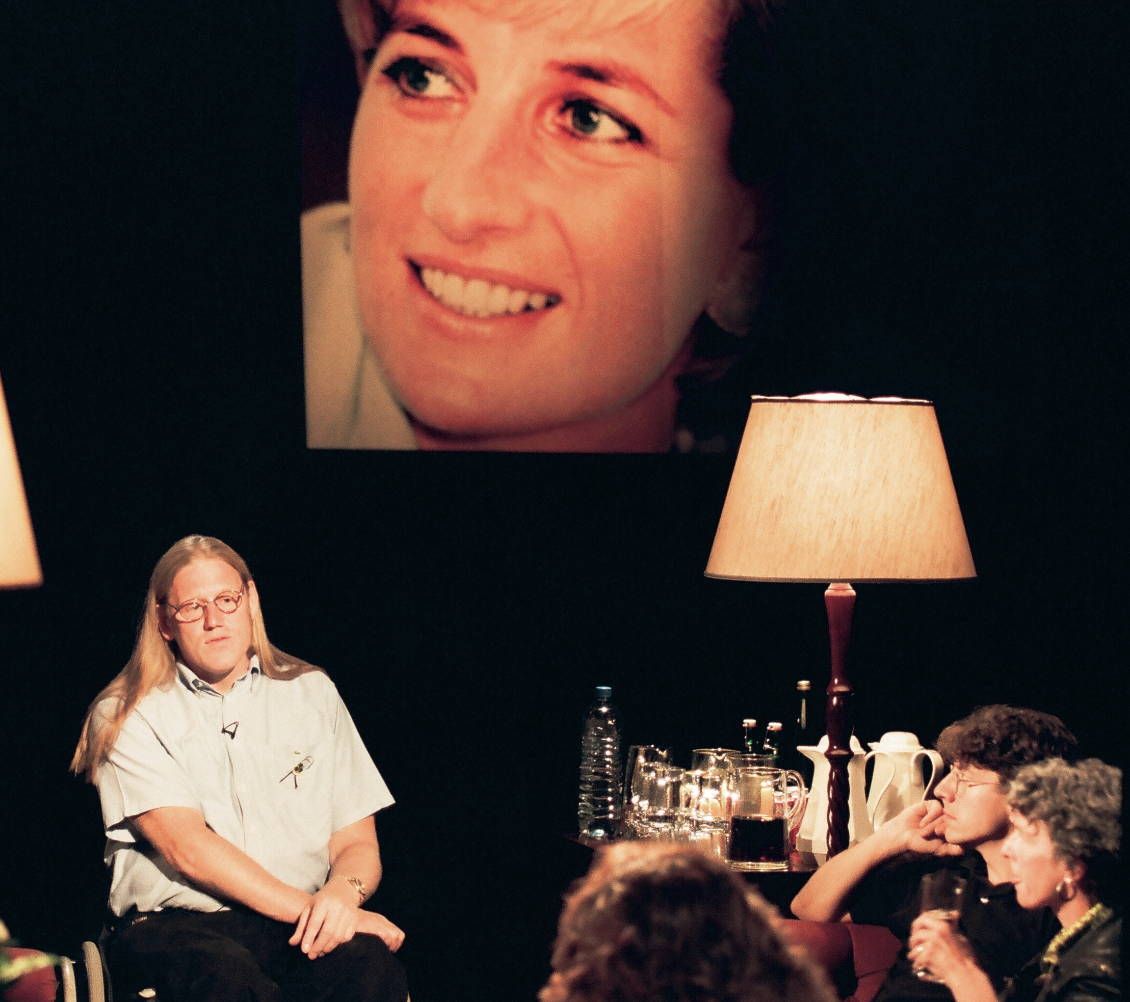 A special edition of the television discussion programme After Dark, broadcast live on Channel 4 on 13 September 1997. Among the guests were Frank McQuerins (in wheelchair), George Monbiot, and Beatrix Campbell.